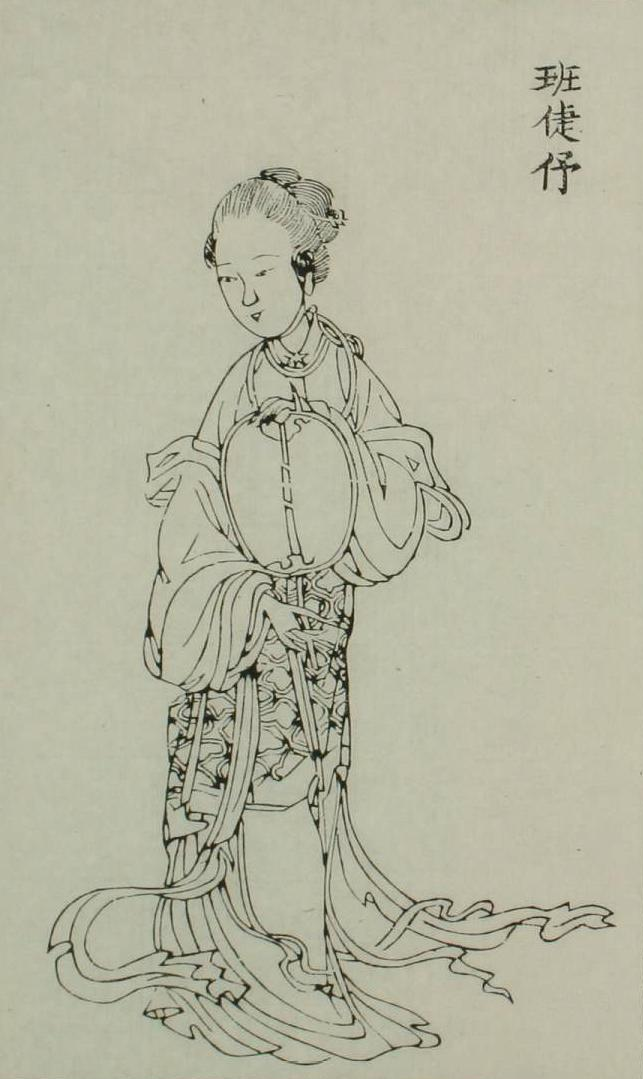 This is a image about the Consort Ban.